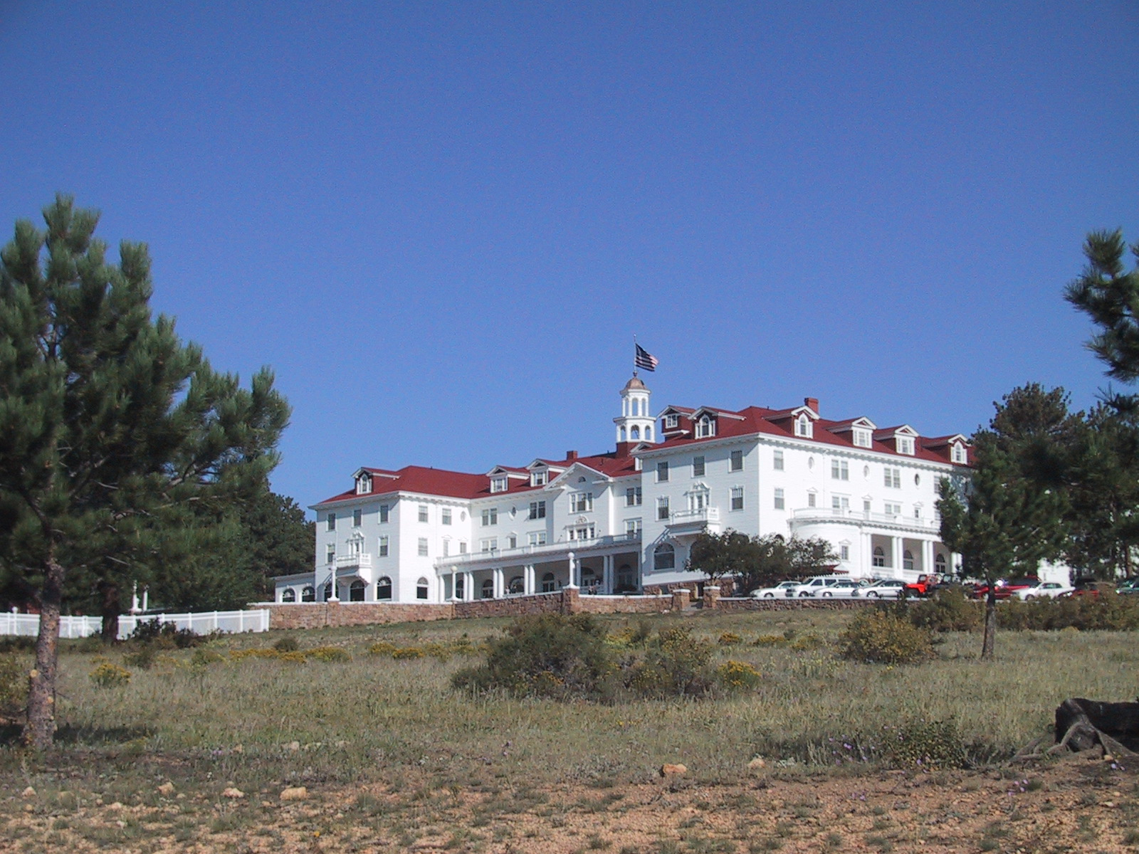 This is the Stanley Hotel in Estes Park, Co. It inspired Steven King's "The Shining" and in fact the 1996 remake was filmed here.